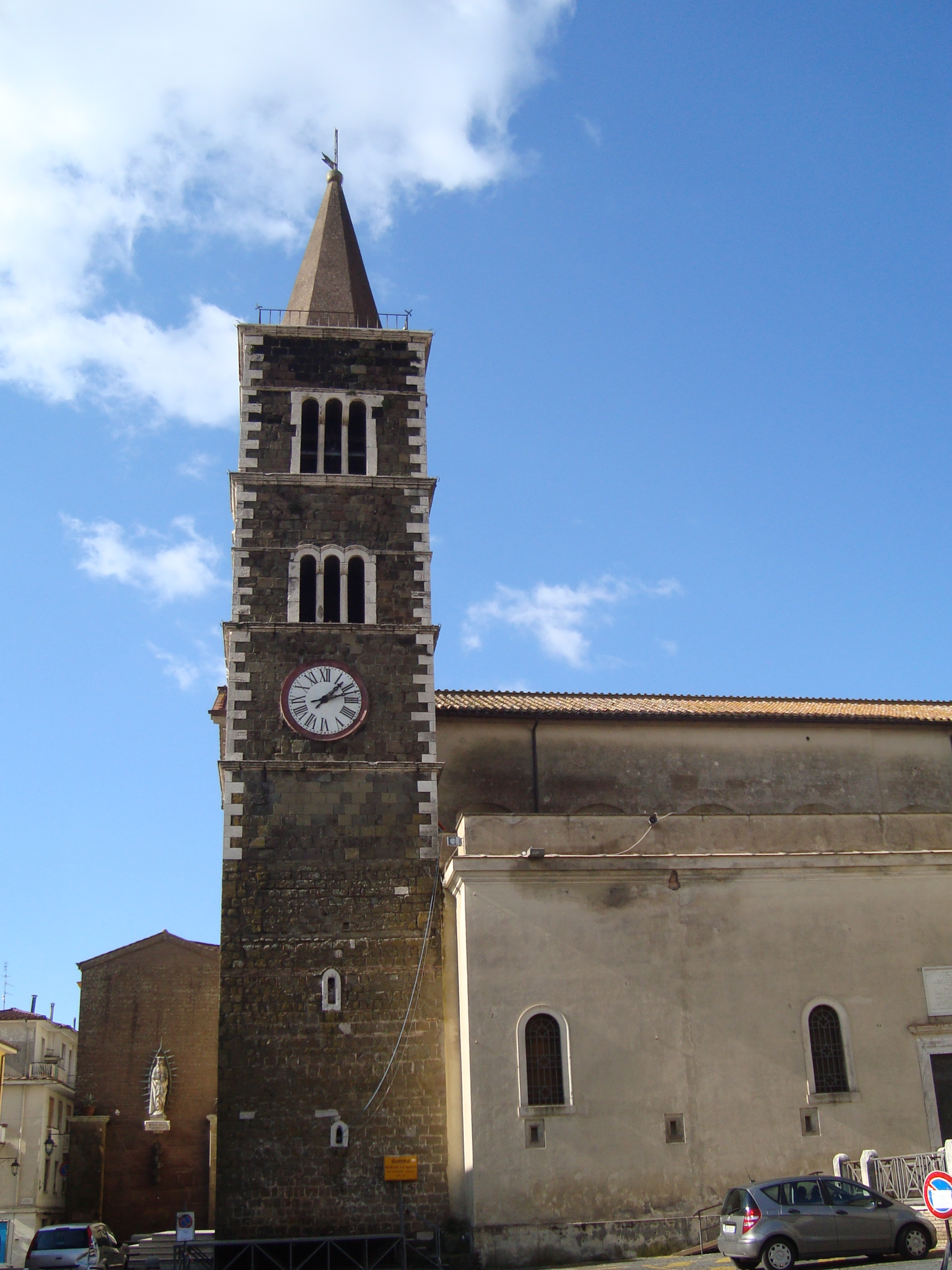 Cathedral Sant'Agapito in Palestrina, Lazio